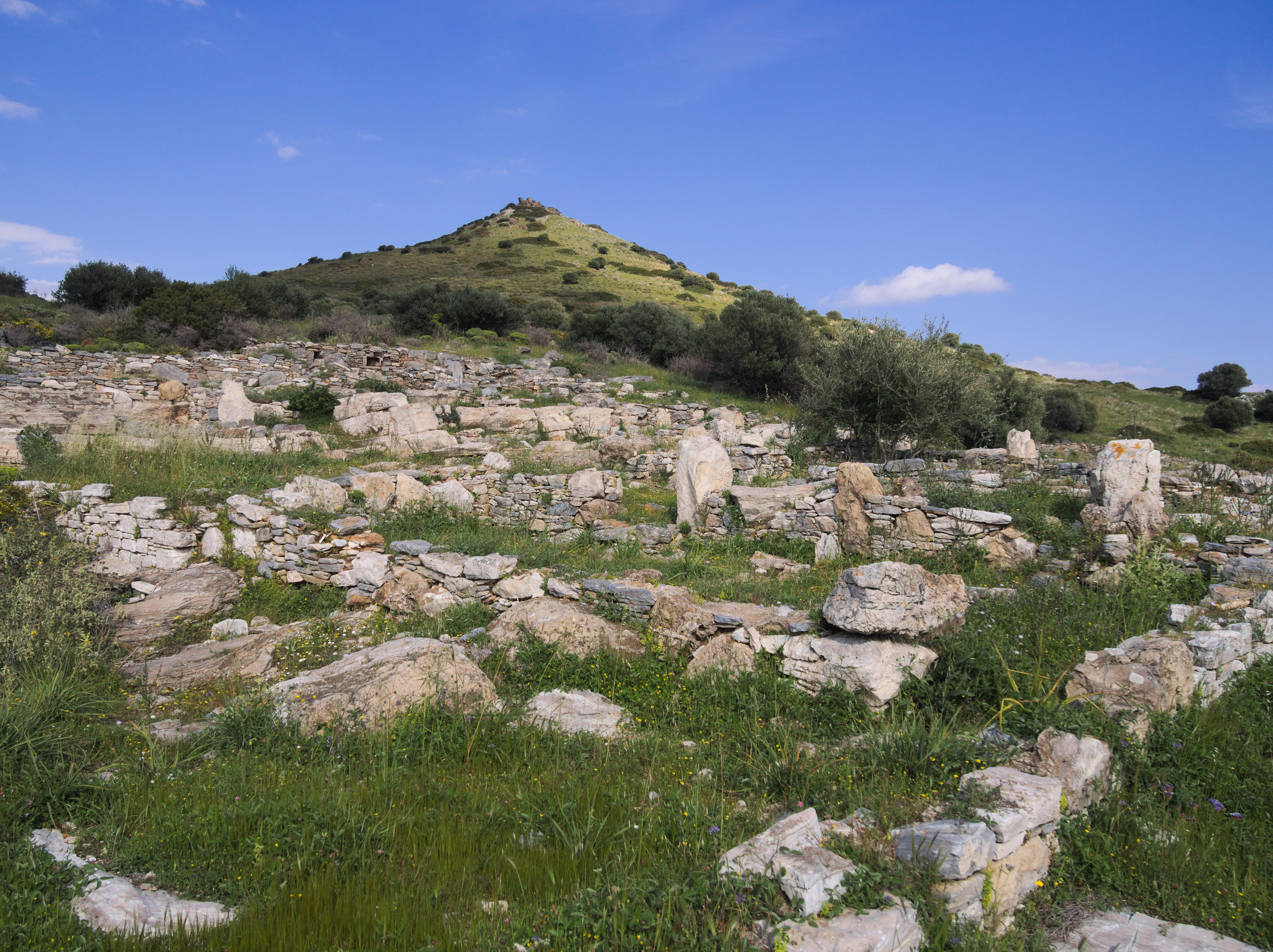 The settlement of Thorikos, dating from classic era.